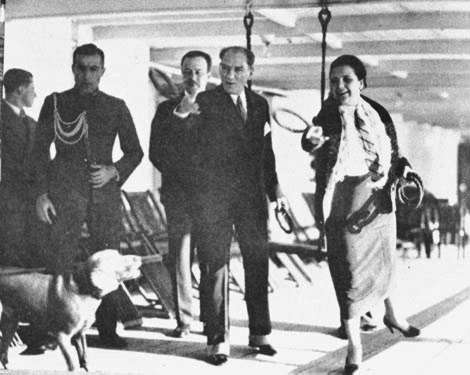 Atatürk goes to Trabzon in 1930.